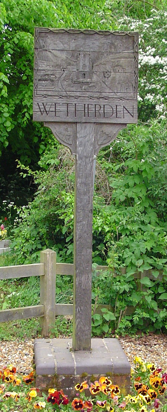 Signpost in Wetherden